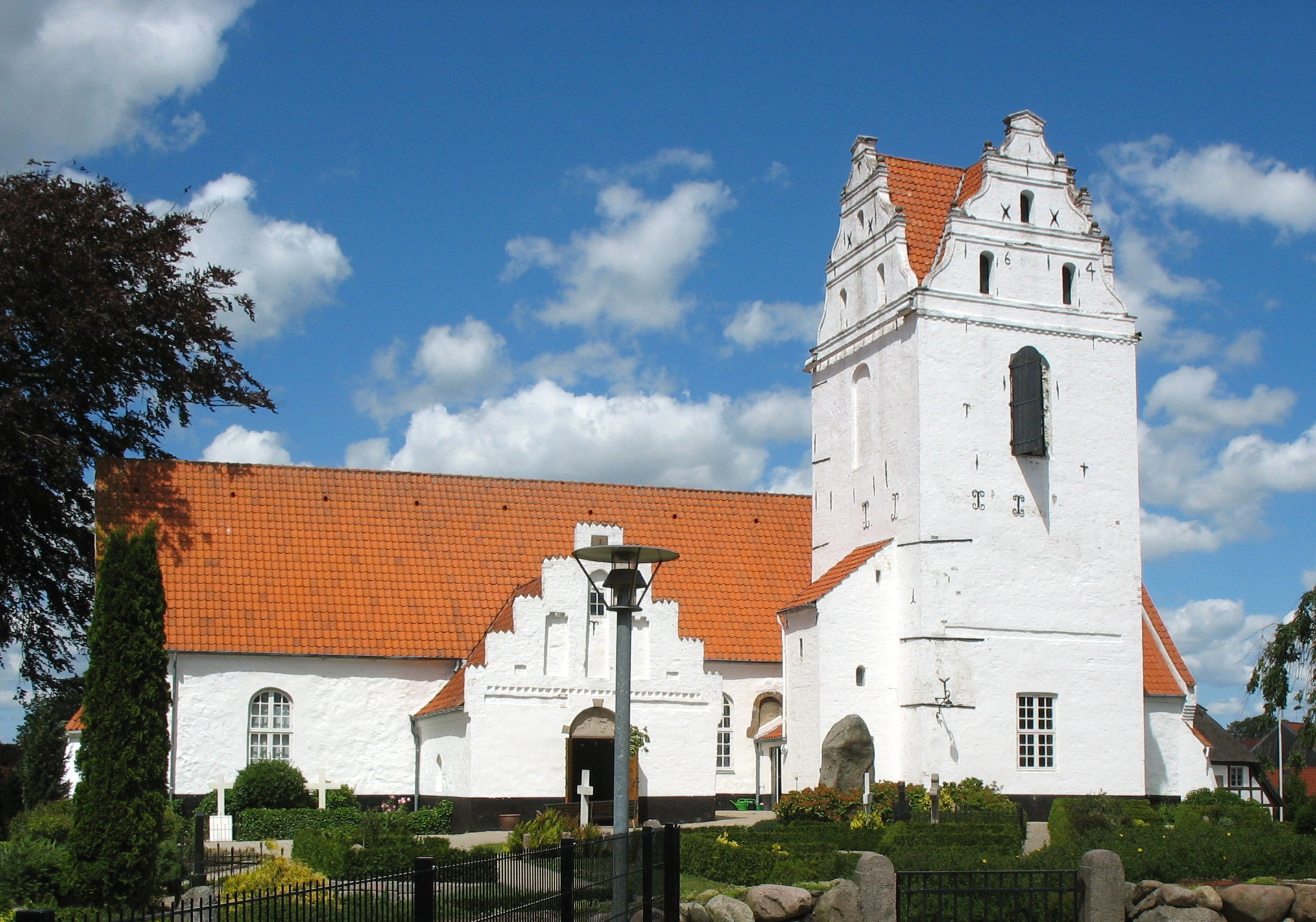 Ringe Kirke (Church) in the Danish town "Ringe" (on the island Funen)